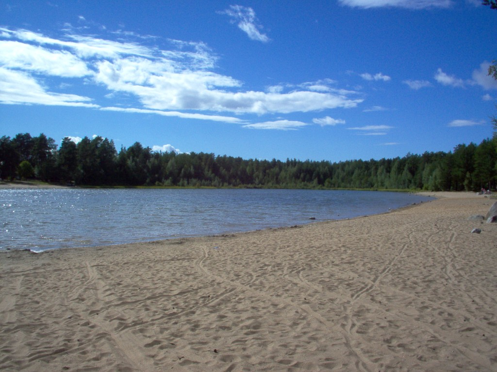 Sand beach of Lake Lämsä (Lämsänjärvi) in Oulu, Finland